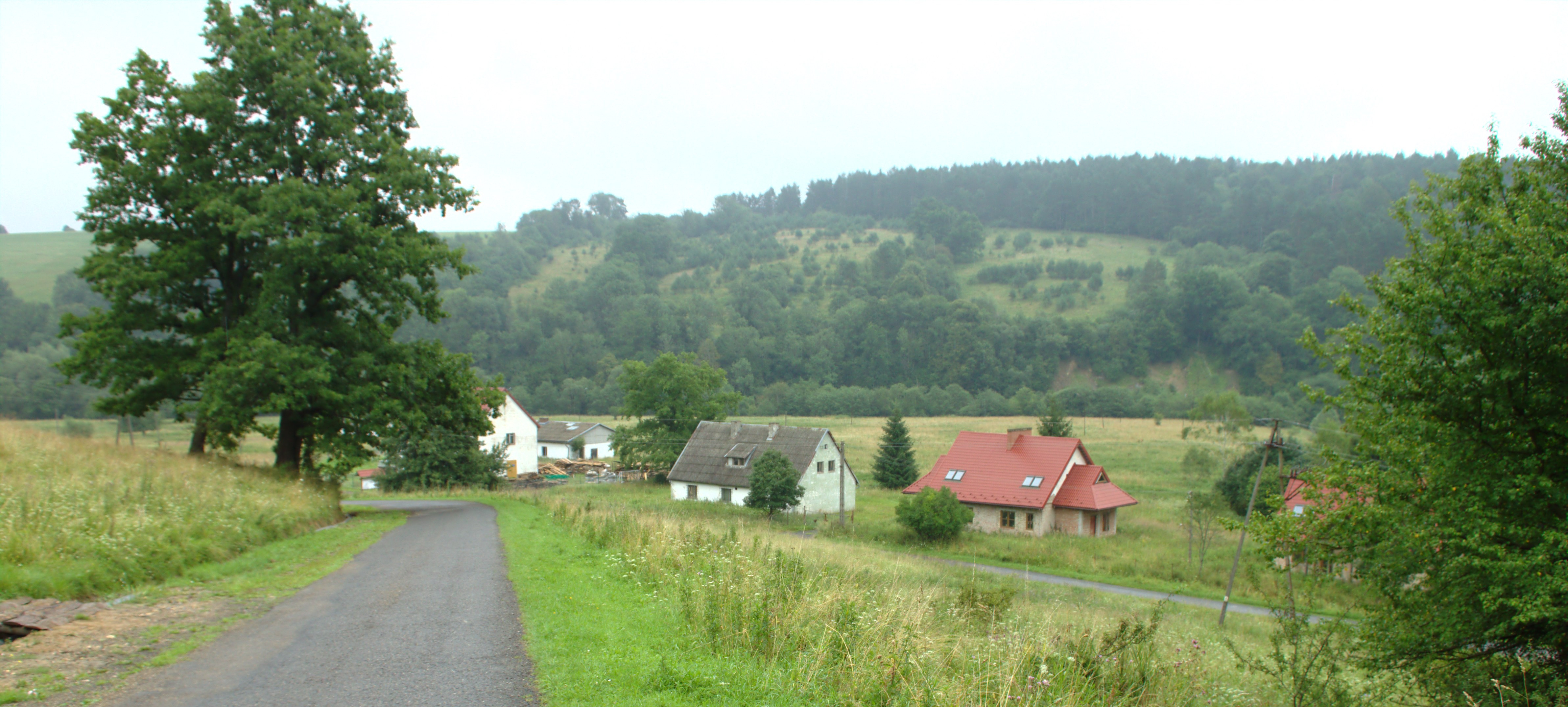 View of the Trójca village in Podkarpackie voivodeship, Poland